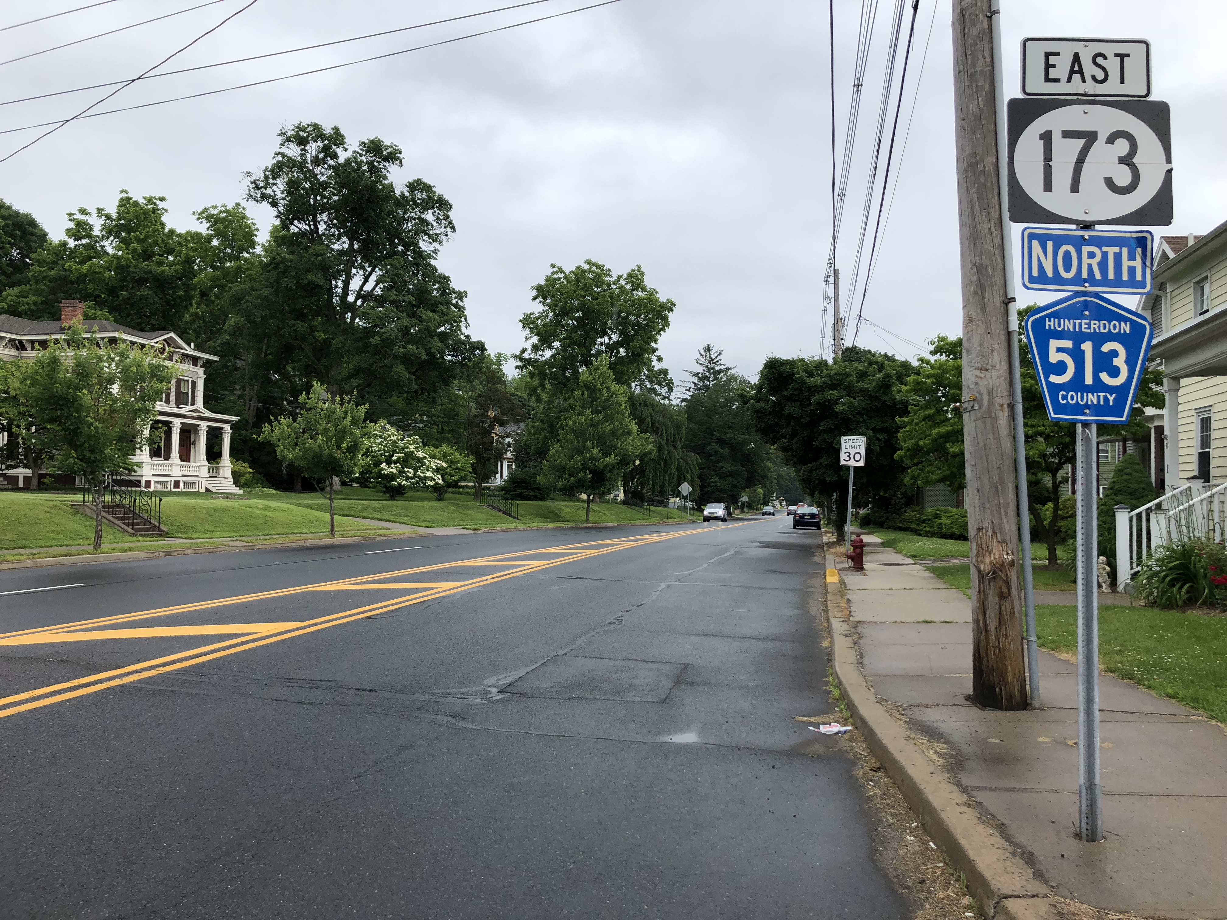 View east along New Jersey State Route 173 and north along Hunterdon County Route 513 (Main Street) at Pittstown Road in Clinton, Hunterdon County, New Jersey